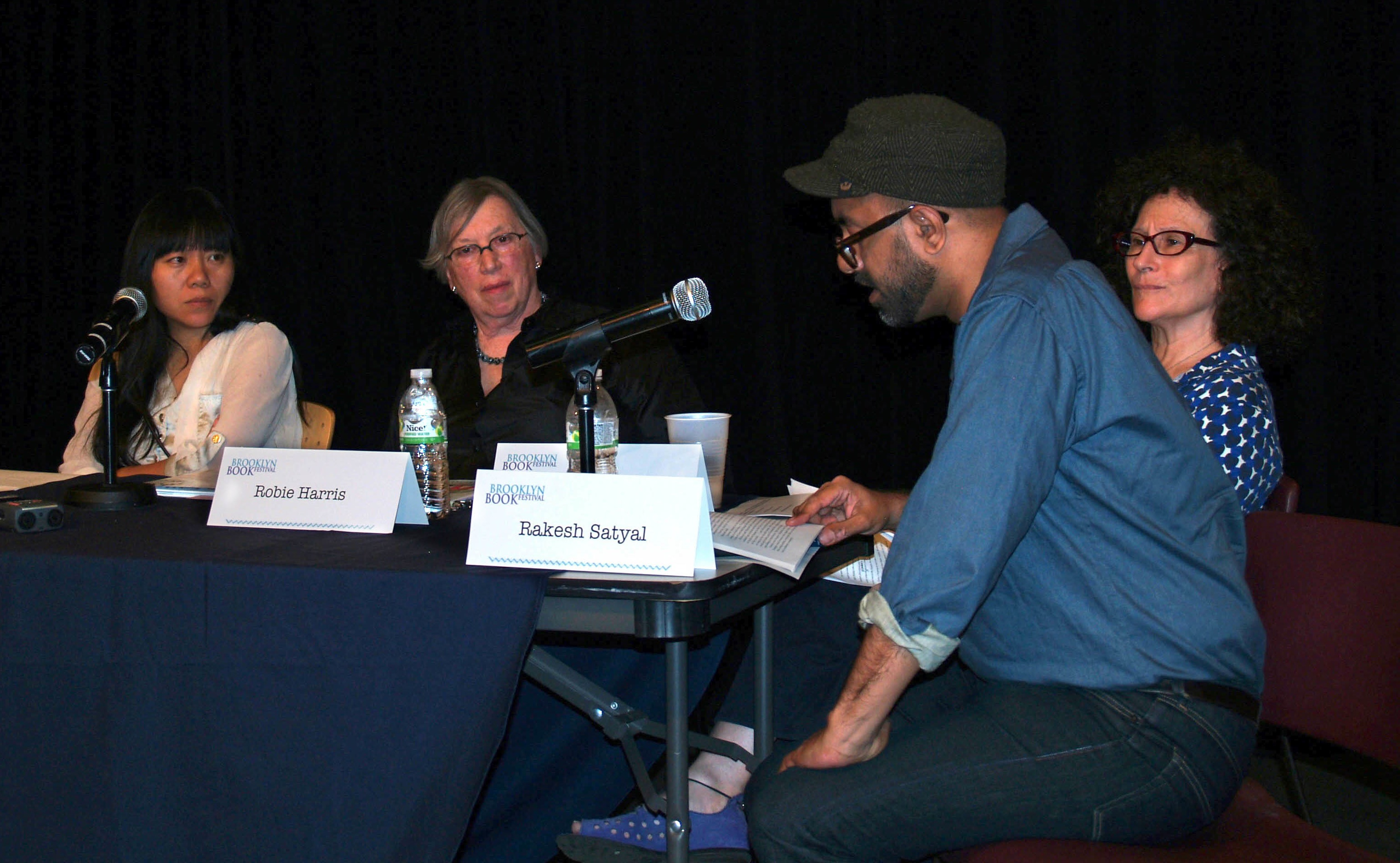 From left to right: Writers Xiaolu Guo, Robie Harris, Rakesh Satyal and Lynne Tillman at the "Something to Hide" panel at the the 2014 Brooklyn Book Festival, in which they discussed how government surveillance programs have spurred some writers to avoid writing on topics that might subject them to scrutiny, and whether this threatens artistic and intellectual freedom. This photo was created by Luigi Novi. It is not in the public domain, and use of this file outside of the licensing terms is a copyright violation.